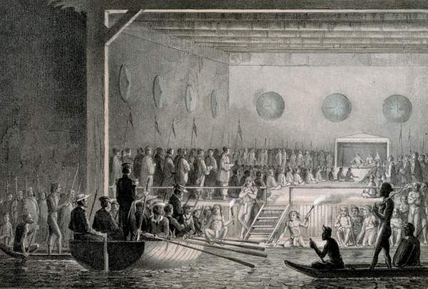 Picture shows British delegation packed with firearms at the palace of the Brunei sultanate circa 1846. The British navy lined up British warships near the Sultan's palace with cannons ready to fire if the Sultan refused to sign the treaty. The Sultan had no choice but to sign the Treaty of Labuan on 18th December 1846 and forced to cede Labuan to Britain. The island later became a Crown Colony in 1848.